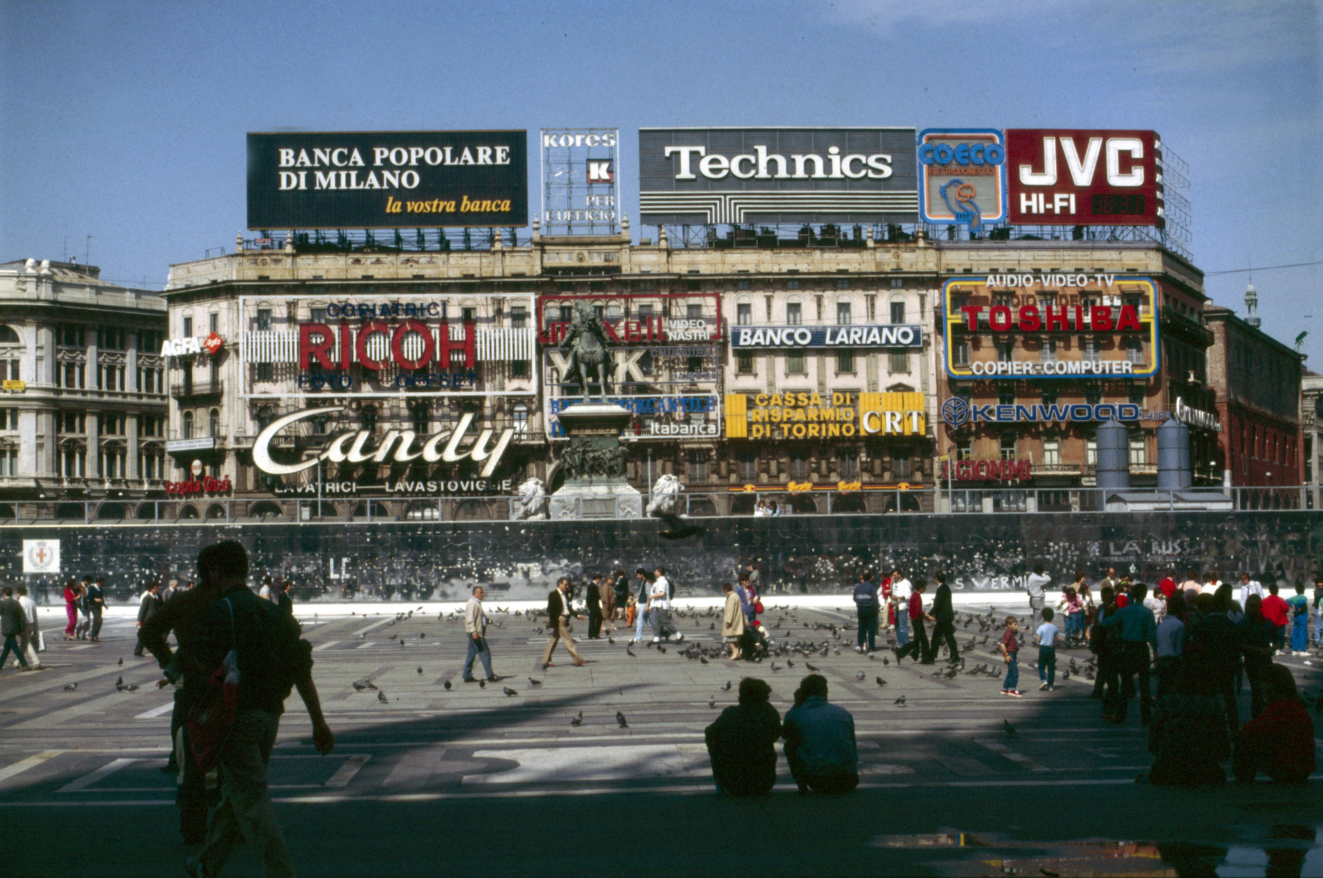 Milano